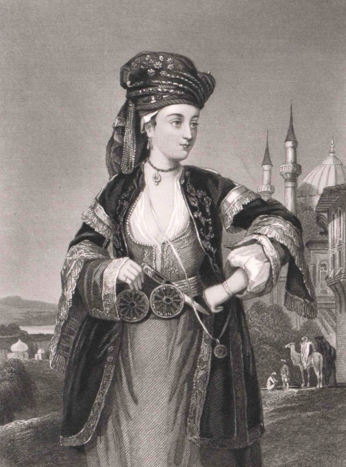 Mary Wortley Montagu (1789–1762). New York: Derby & Jackson